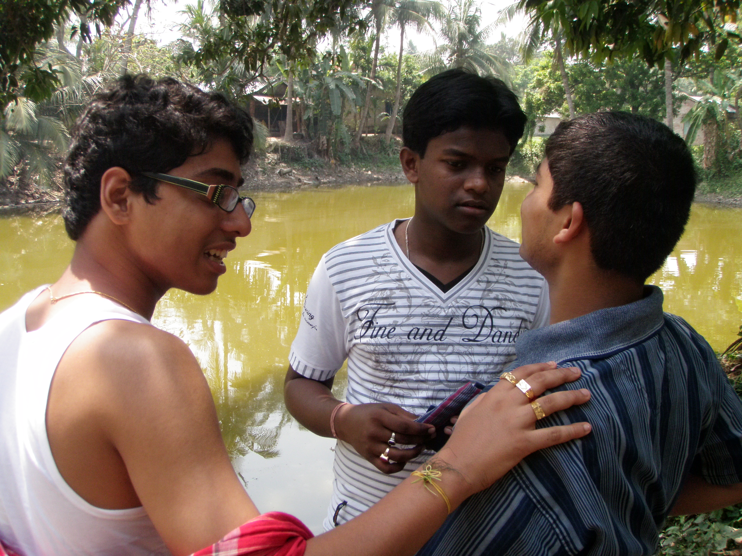 Photographed at Simurali, Nadia.